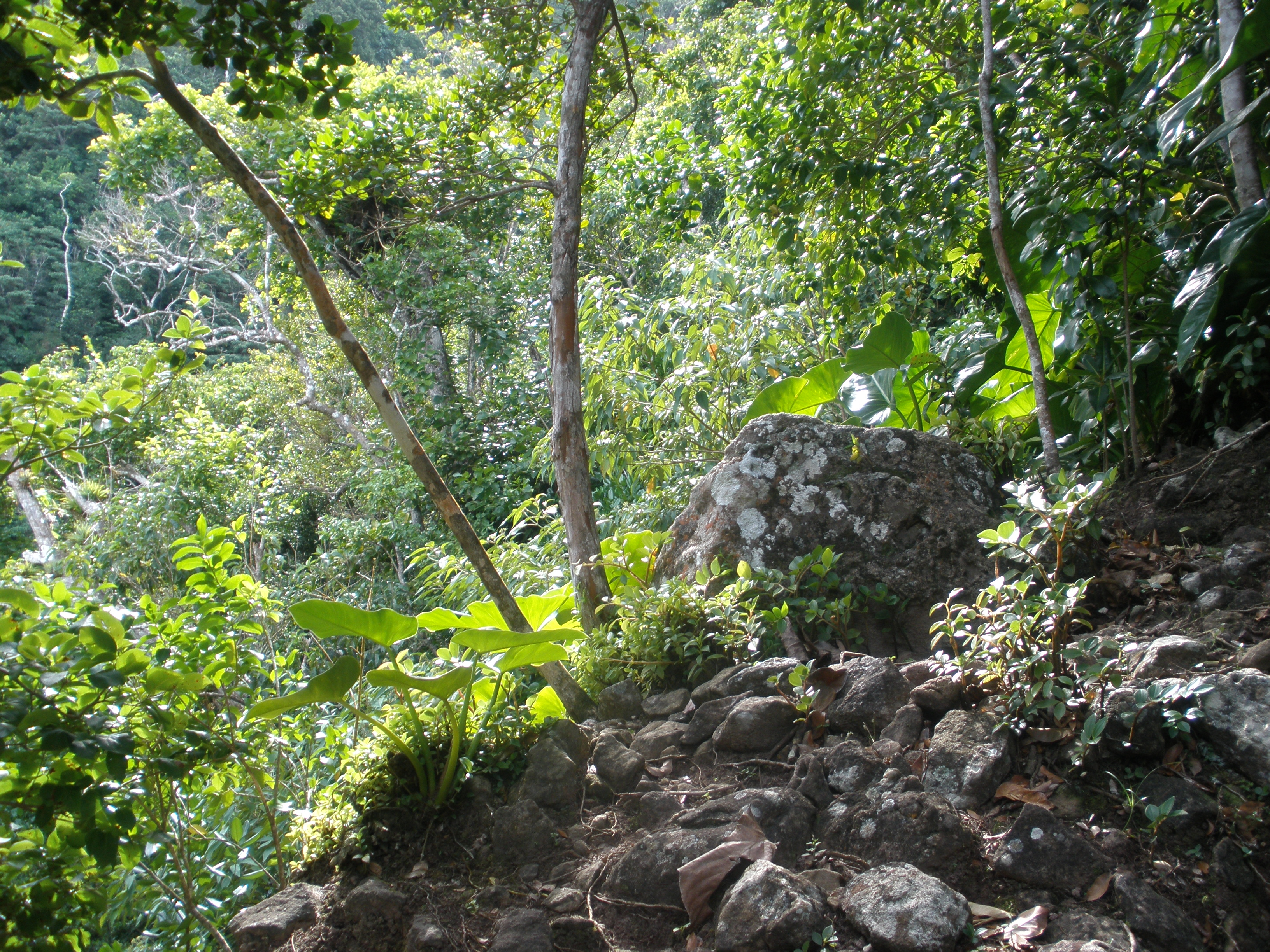 All Too Far Trail